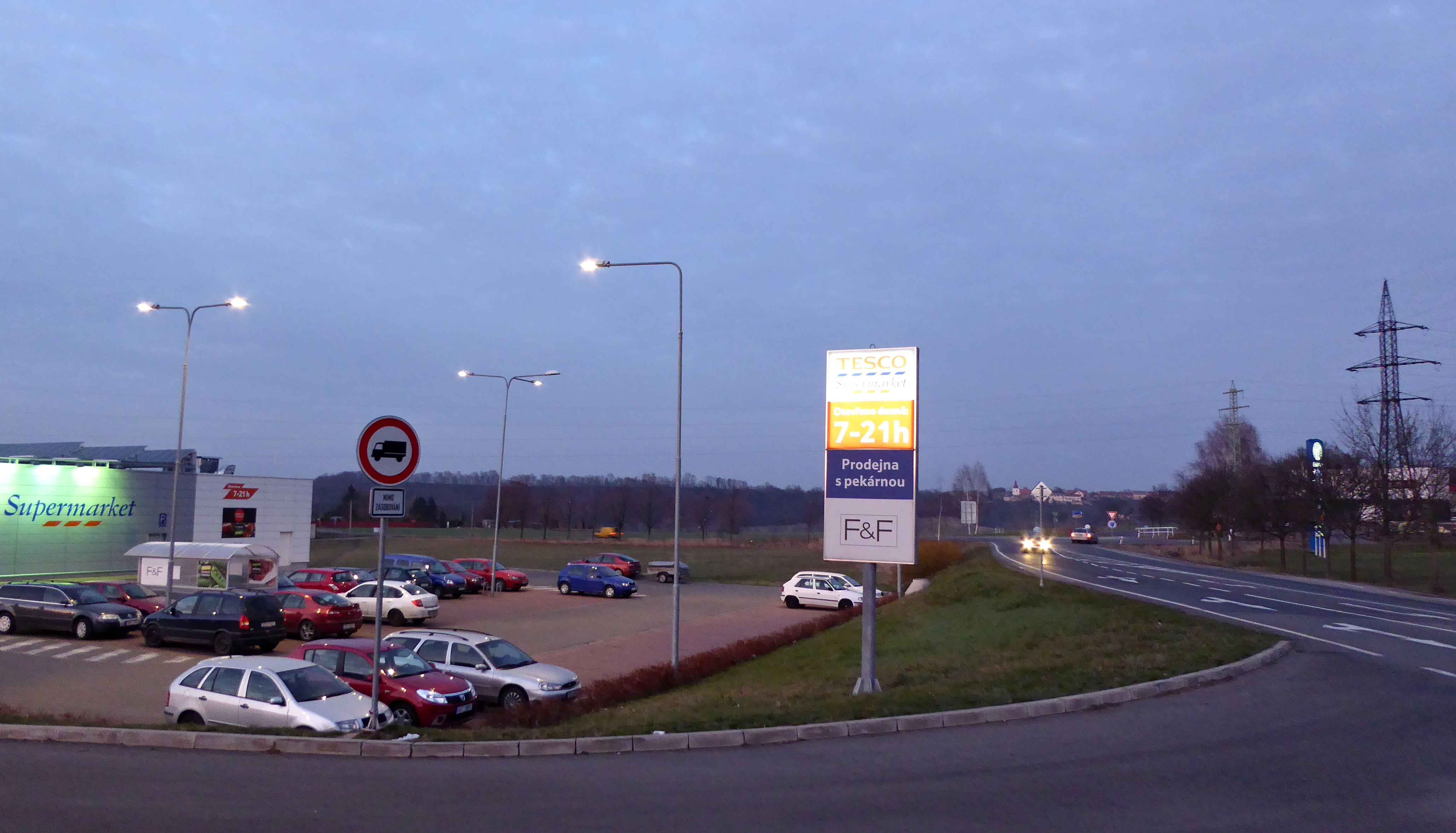 Part of the road (II/358) in Skuteč near shopping center. Photo location - Czechia, Pardubice Region, Skuteč town.